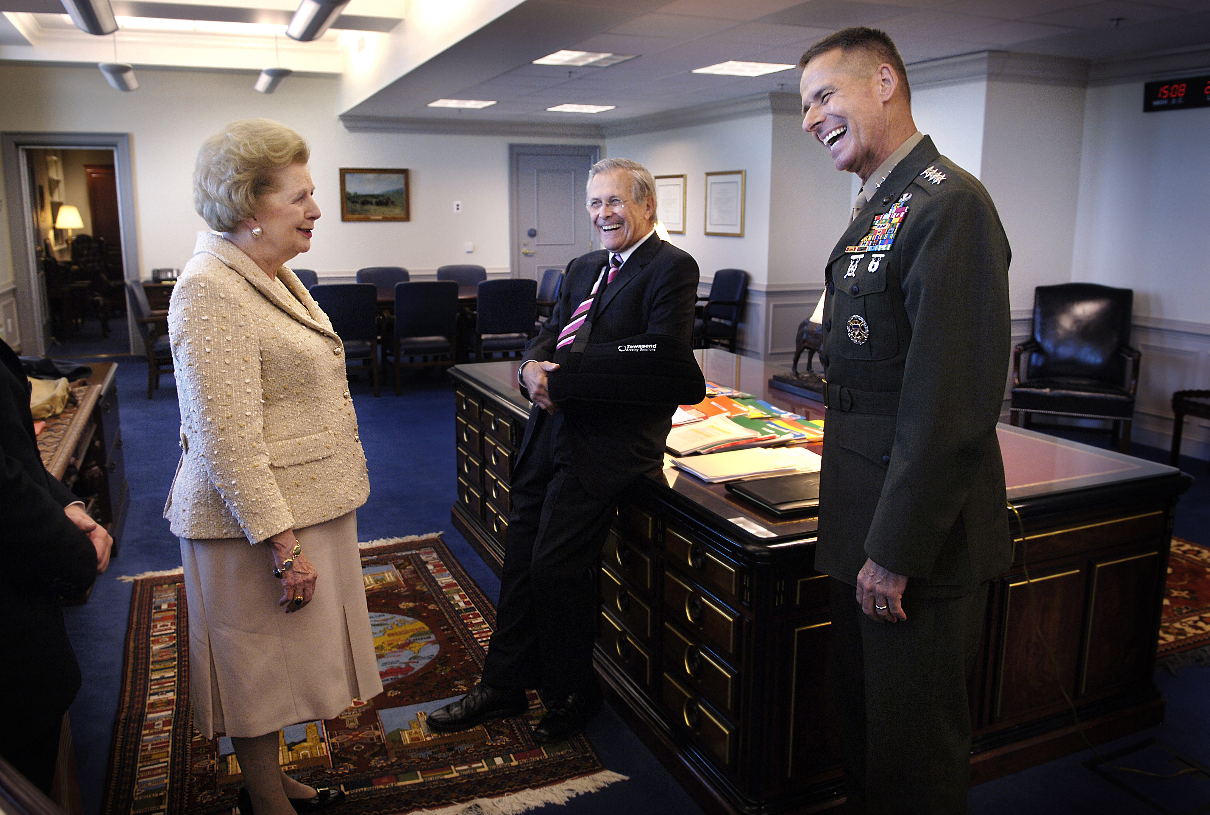 Lady Margaret Thatcher, former prime minister of Great Britain, shares a laugh with Secretary of Defense Donald H. Rumsfeld, and Chairman Joint Chiefs of Staff Marine Gen. Peter Pace during her visit to the Pentagon, Sept 12, 2006. Michael B. Donley, director of Administration and Management at the Pentagon presented Thatcher with an honorary key to the Pentagon as a small tribute to her service to the United States.